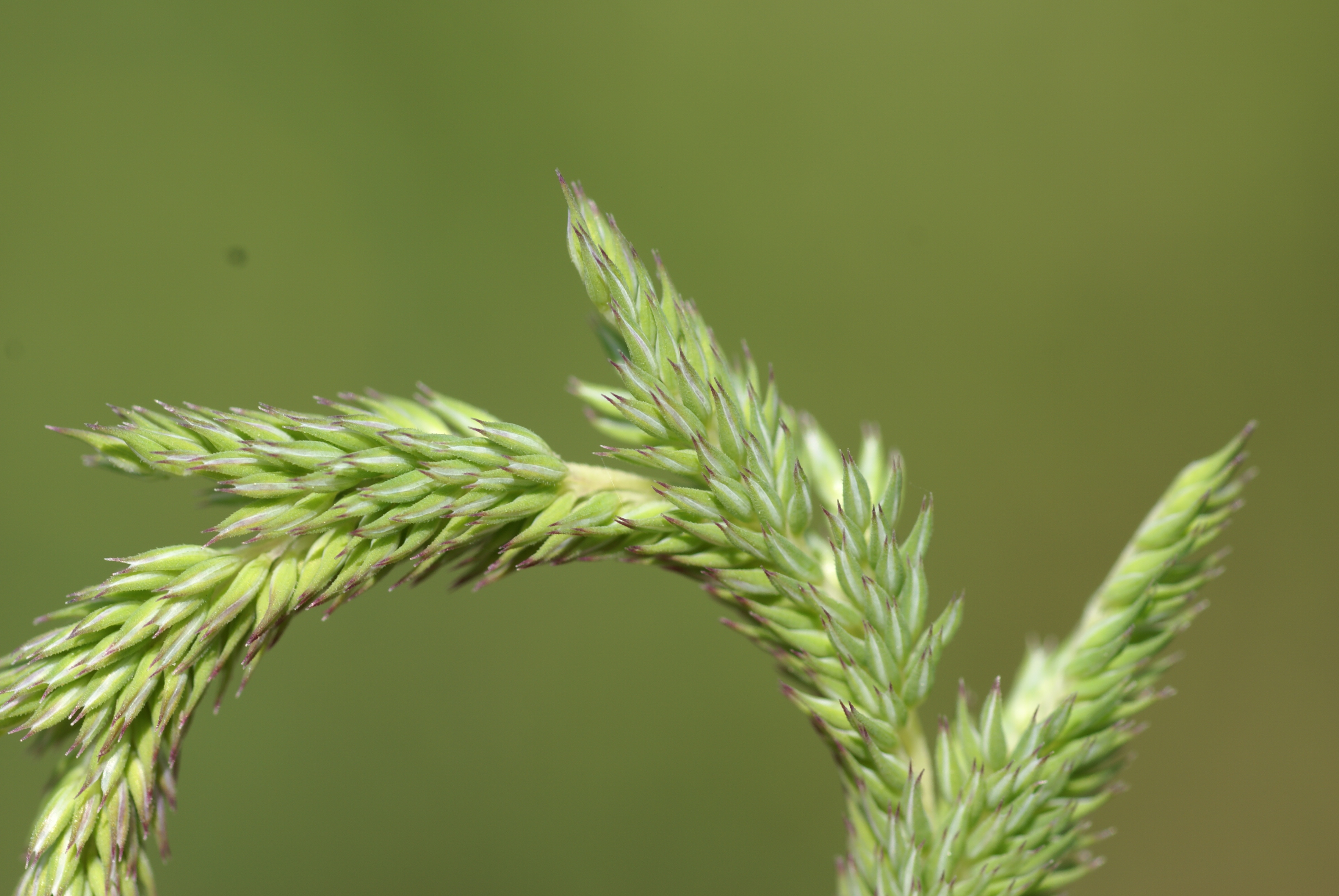 Plant species Phleum phleoides a few hundred meters from Skokloster castle in Sweden.